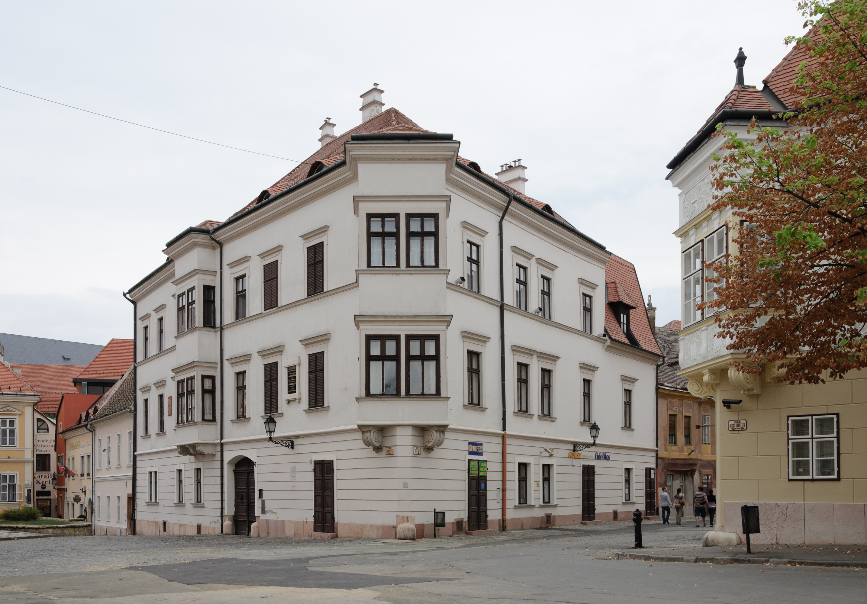 Old building at Bécsi kapu square 11 and Király street 1 in Győr, Hungary.